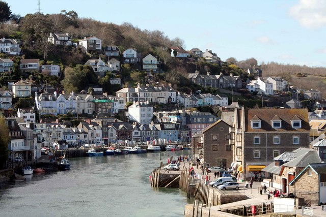 River Looe in Looe, Cornwall, Great Britain